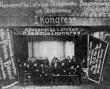 First Congress of the Communist Party of Latvia. Note the old spelling of the Latvian language.